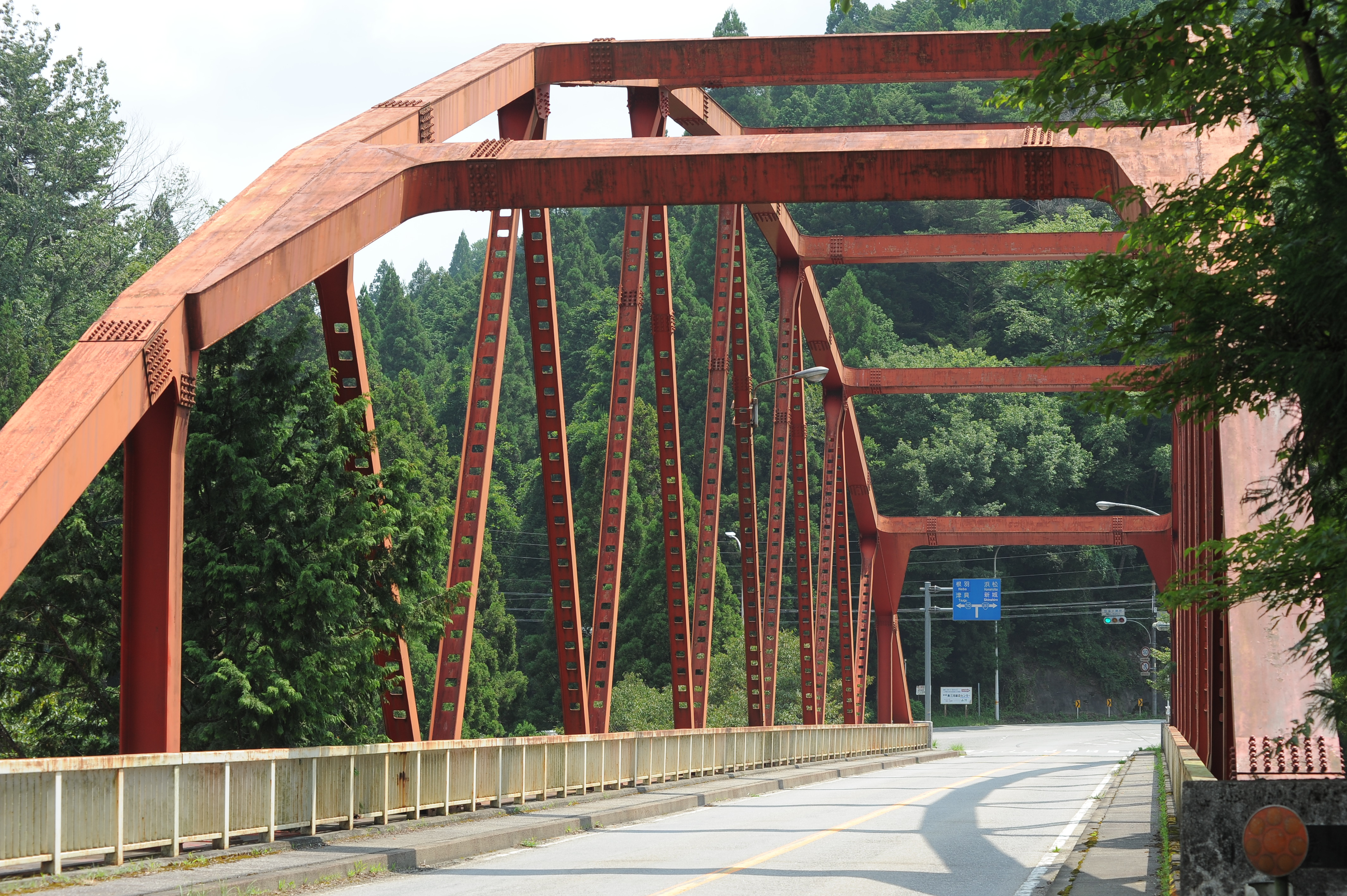 Shitara Ohashi, Route 257, Shitara, Aichi